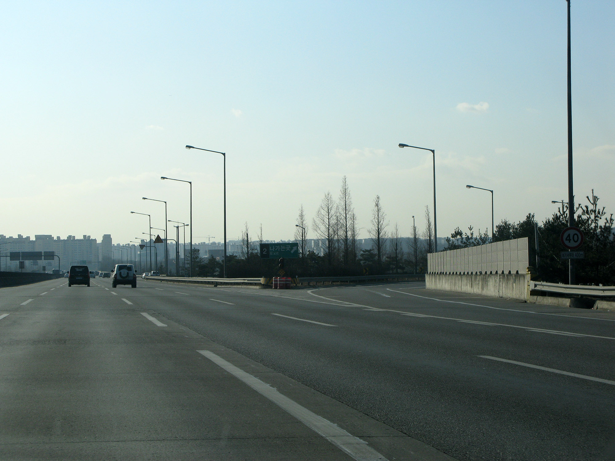 Seoul Ring Expressway Seongnam IC